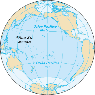 Pacific Ocean map, tagged in Aragonese